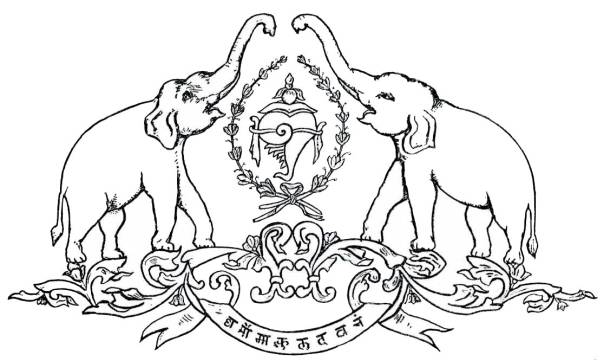 Coat of arms of the Kingdom of Travancore from 1939 to 1948. It shows two elephants flanking a shanku surrounded by a laurel wreath, and a banner underneath with the Sanskrit text Dharmo Smat Kuladewatam, meaning Dharma is Our Family Deity.